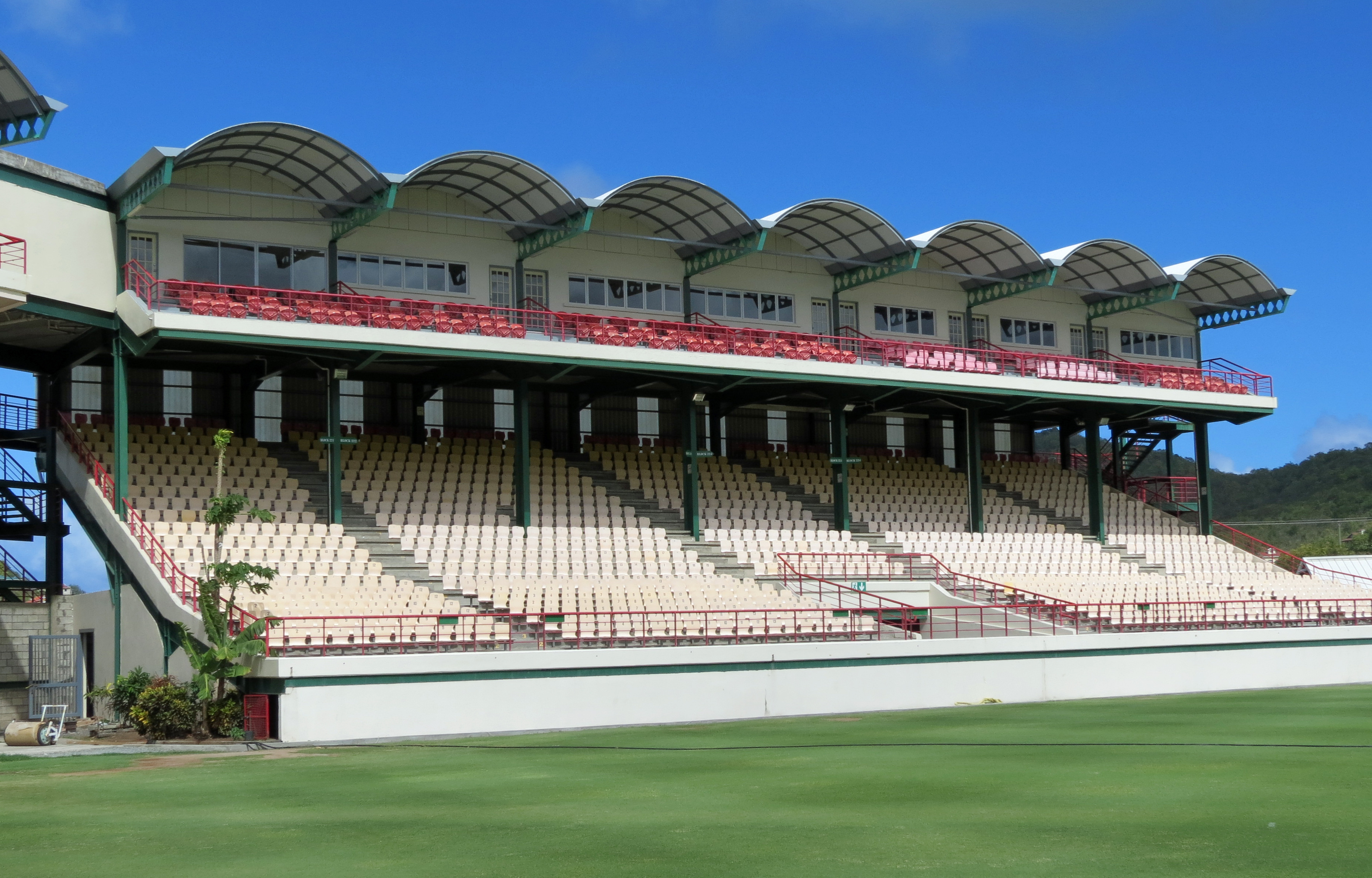 CRicket Ground at Beausejour St Lucia. Main stand.